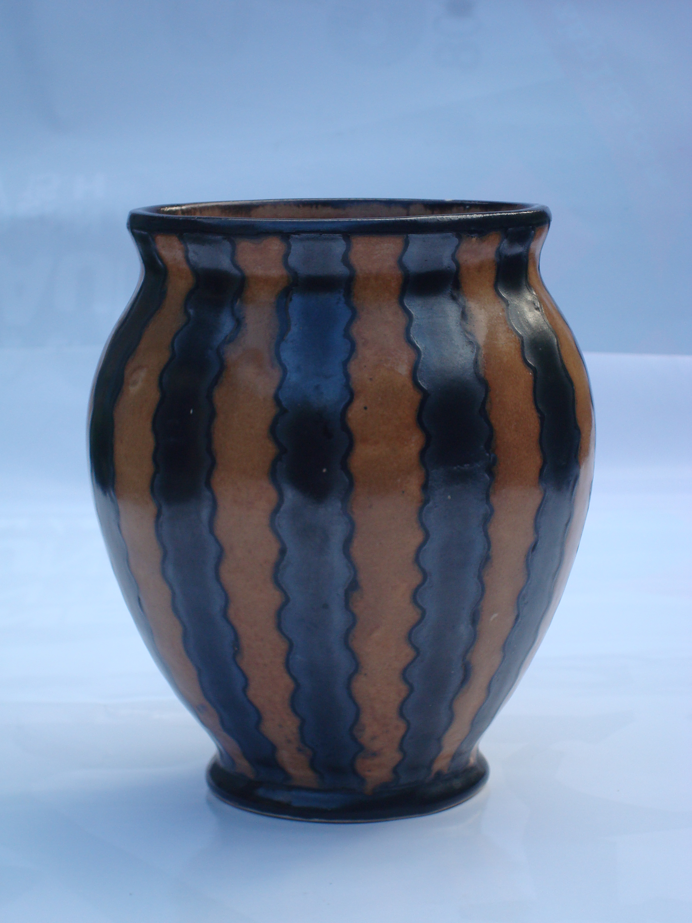 A ceramic pot of the Odetta collection of Quimper's Pottery factory from the 30's. Odetta pottery was produced from 1922 into the 70's. Quimper (Kemper) is a city in southwest Brittany.